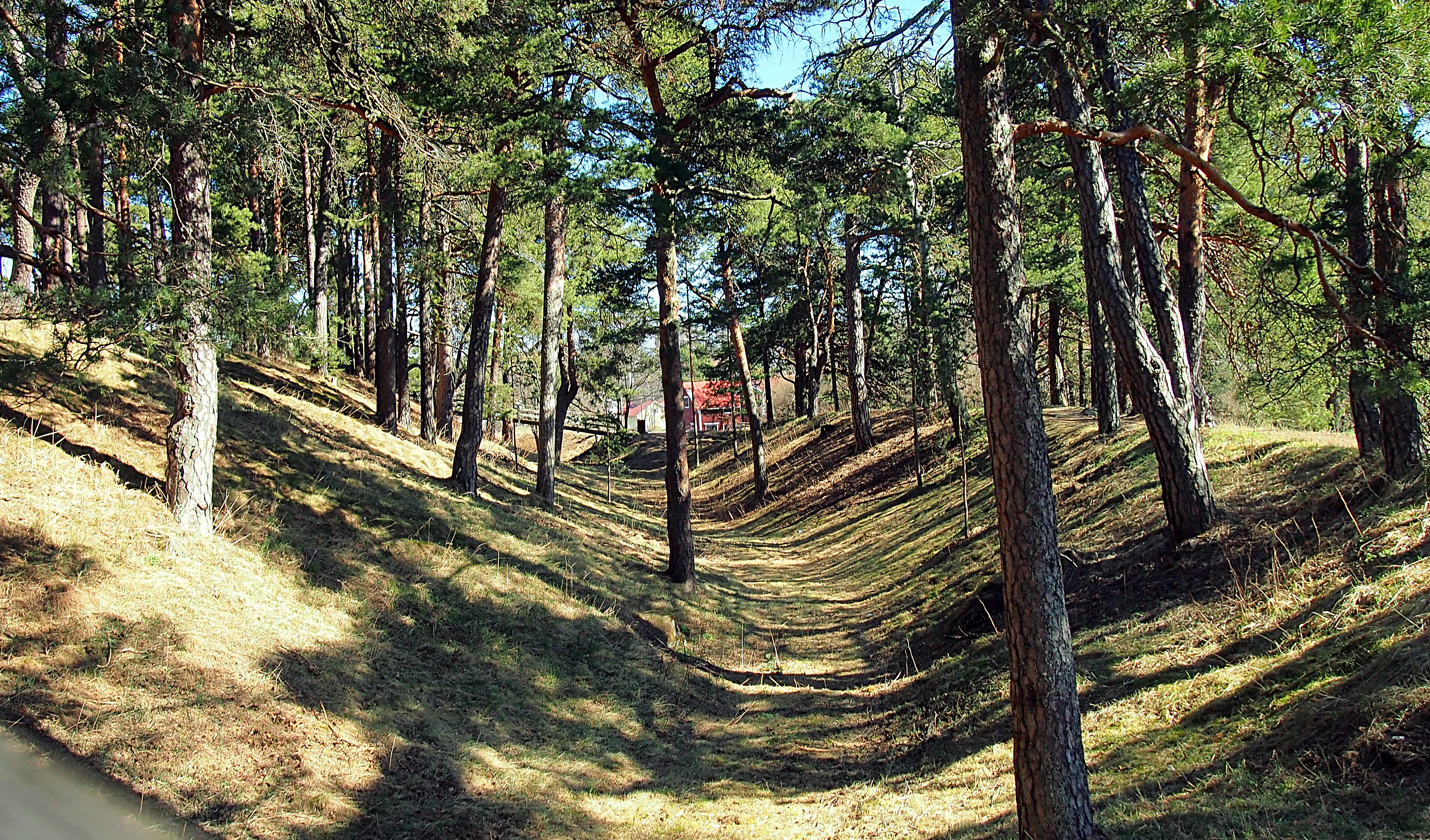 Iso Linnamäki, Porvoo, Finland